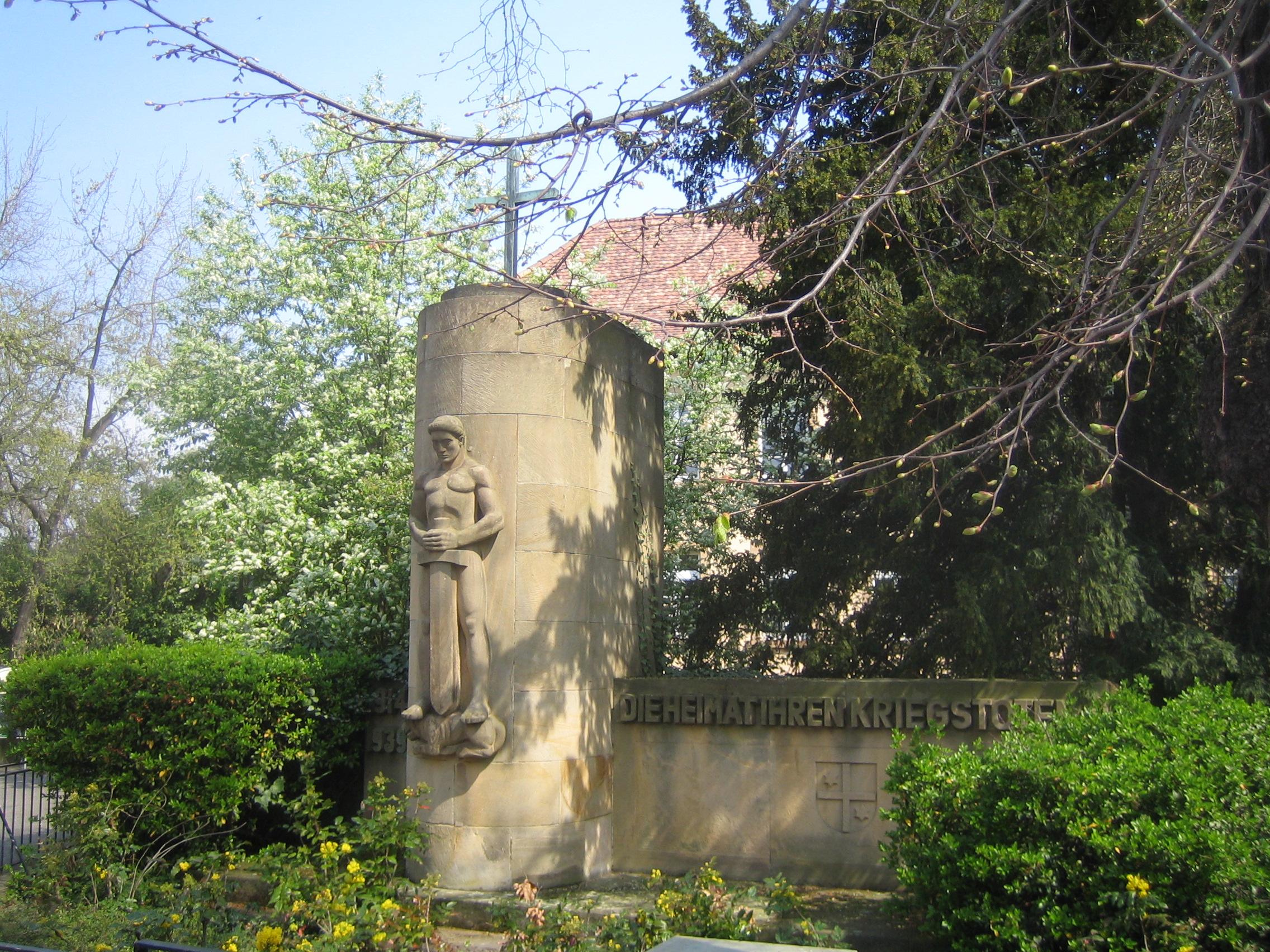 War Memorial in Deidesheim - Die Heimat Ihren Kriegstoten